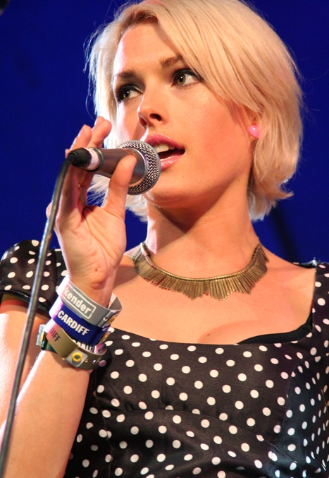 Gwenno, vocalist of the british groups The Pipettes. Flickr description 'Get Loaded in the Park' second stage